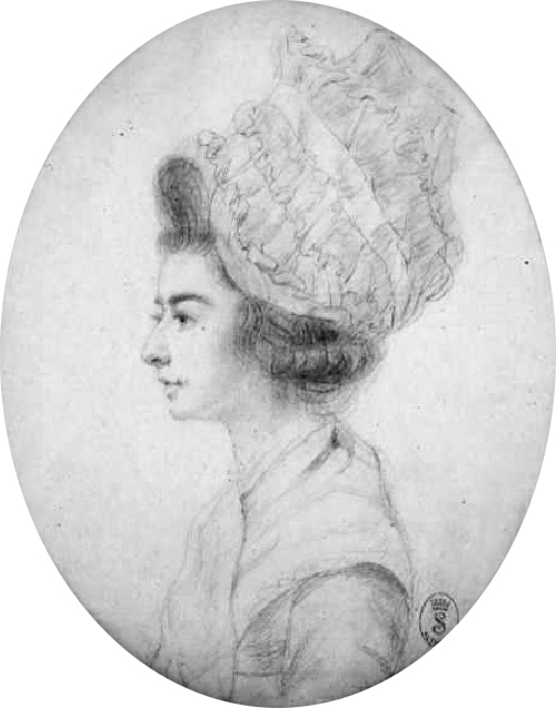 Georgiana Lady Townsend (d. 1851) pencil on paper 13.5 x 11.1 cm ca 1790